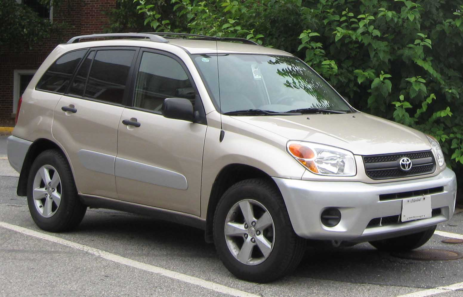 2004-2005 Toyota RAV4 photographed in College Park, Maryland, USA.